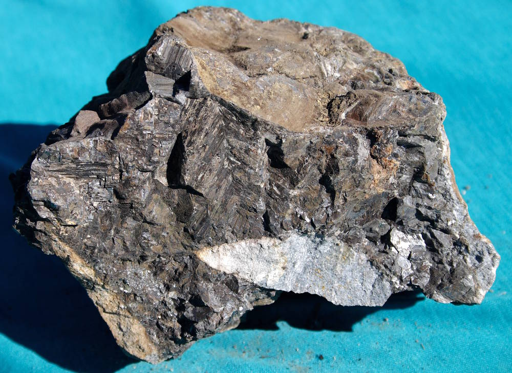 Alabandite, photo 1